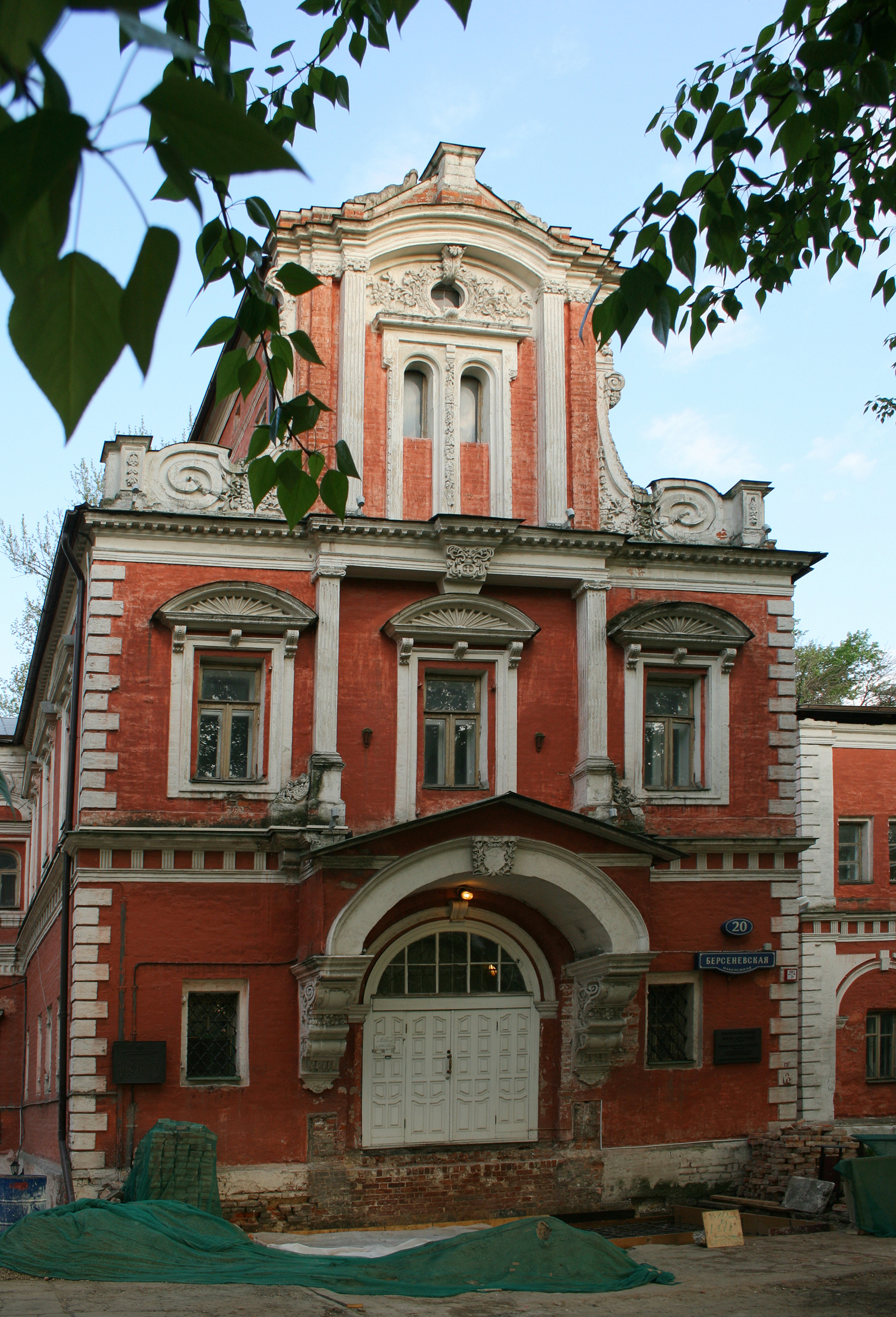 Chambers of Averkii Kirillov at Bersenevskaya Embankment, Moscow, XVII-XVIII c